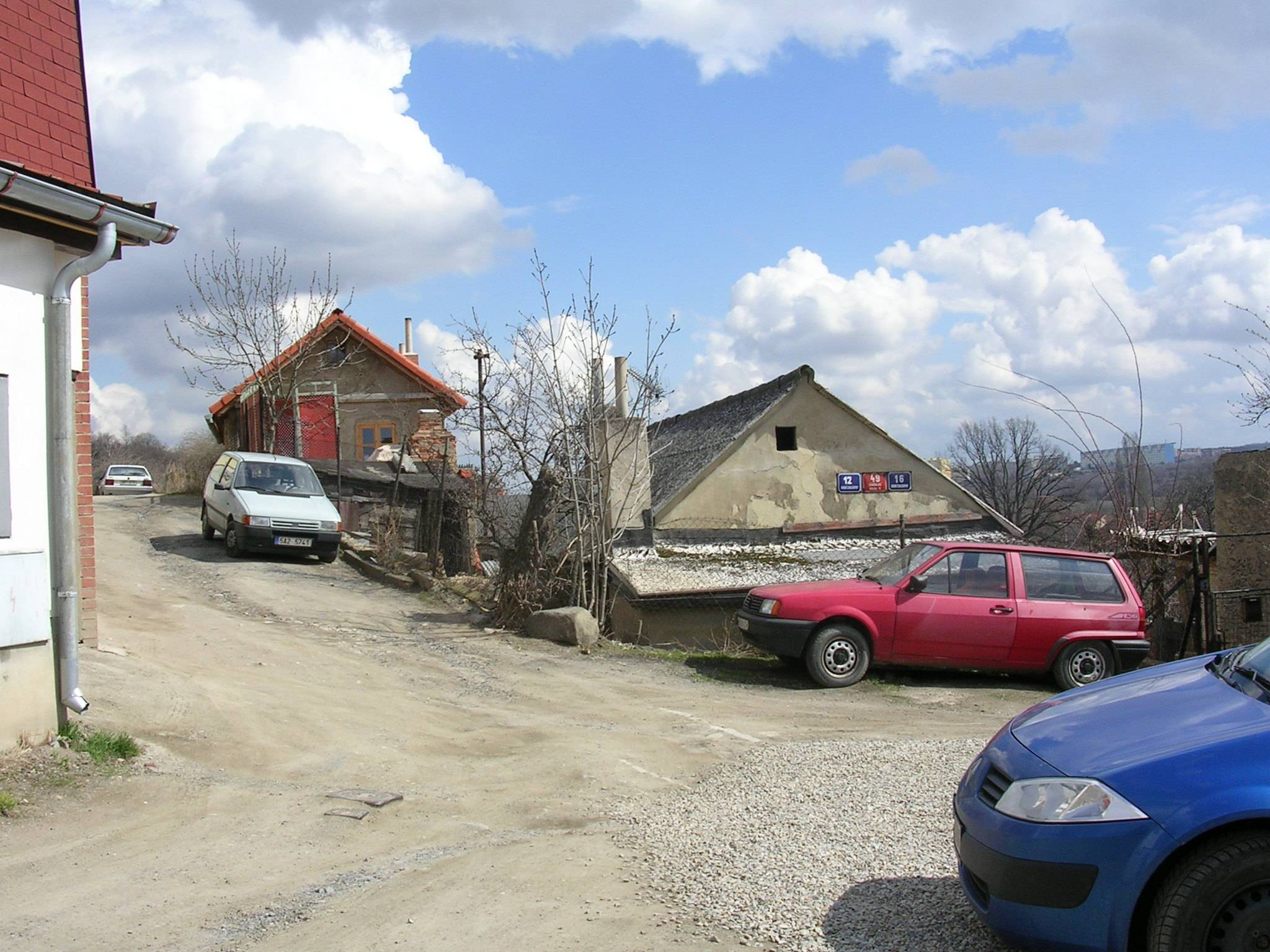 Záběhlice, Prague, the Czech Republic.